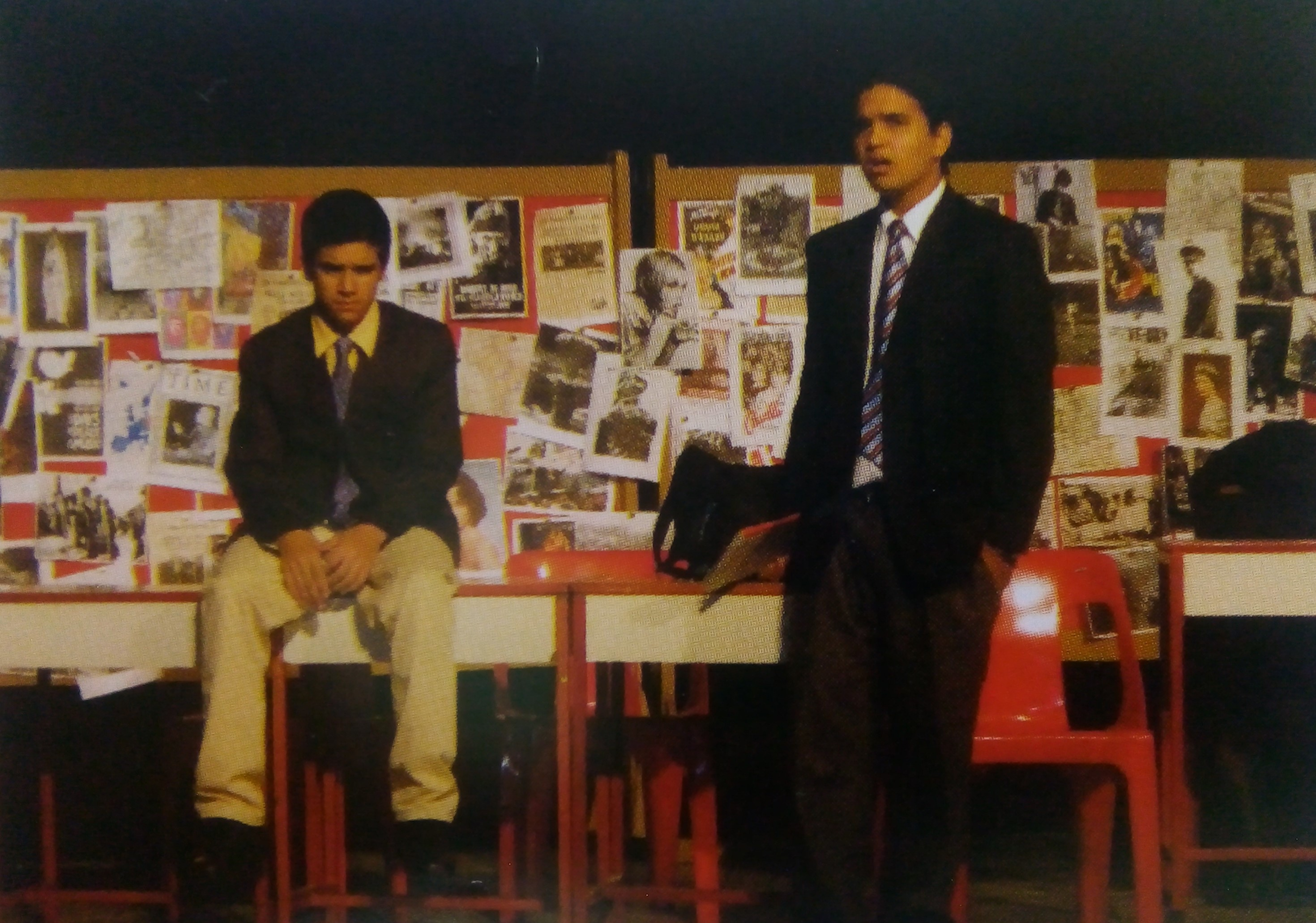 A student production (featuring Vivaan Shah) of Alan Bennett's The History Boys at The Doon School, Dehradun, India.